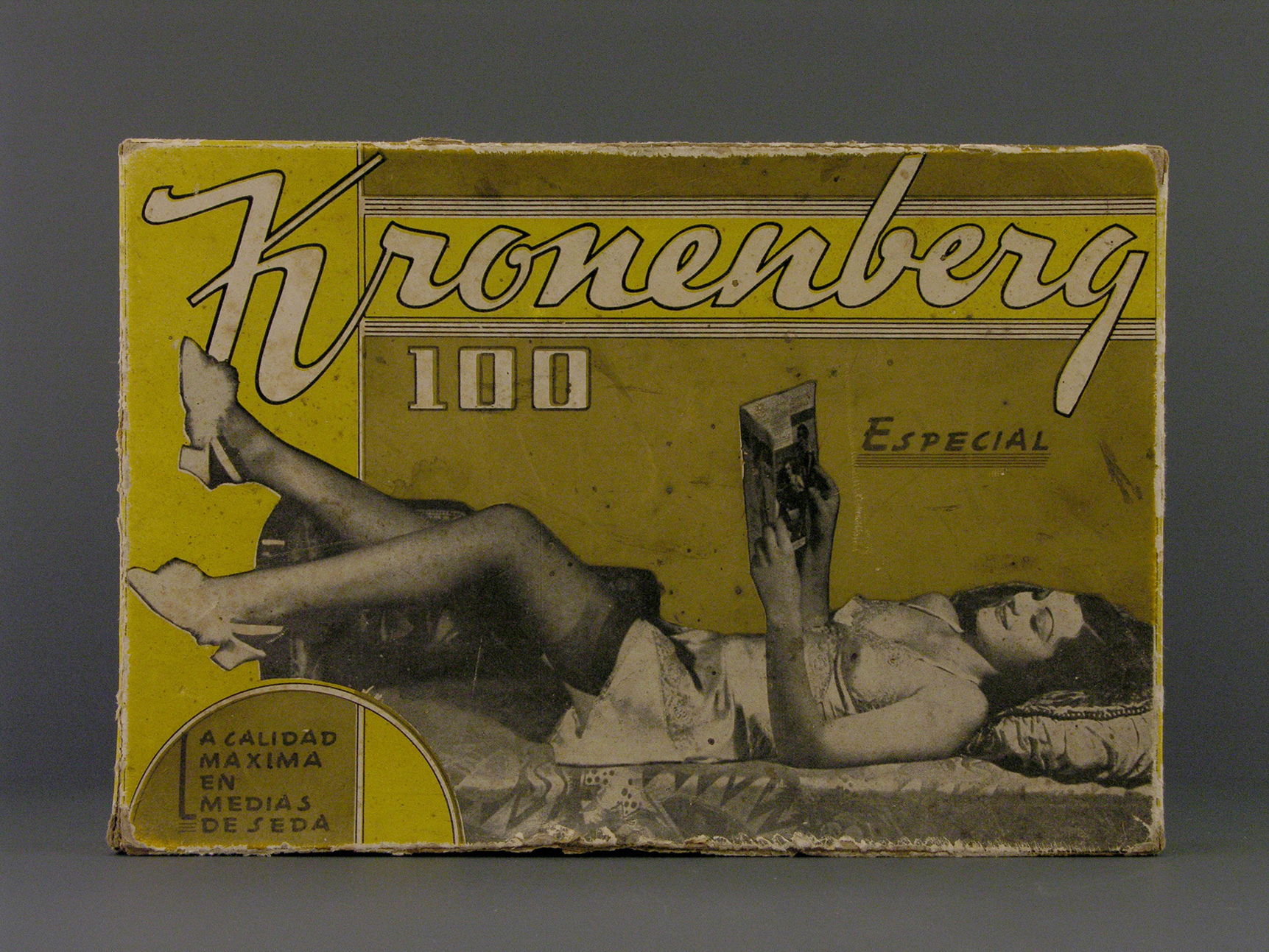 Kronenberg stockings carton box mid 20th century